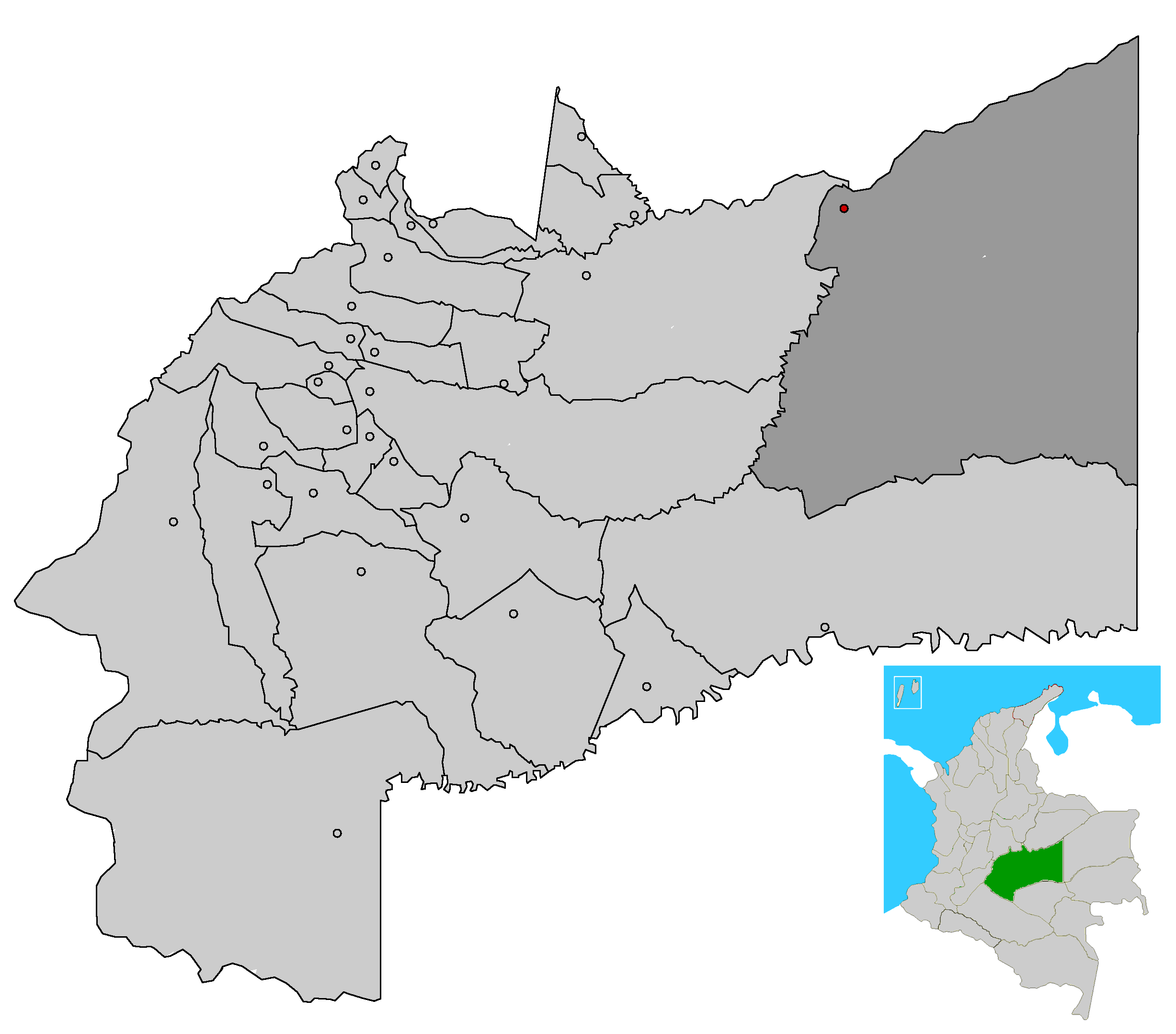 Image depicting map location of the town and municipality of Puerto Gaitan in Meta Department, Colombia